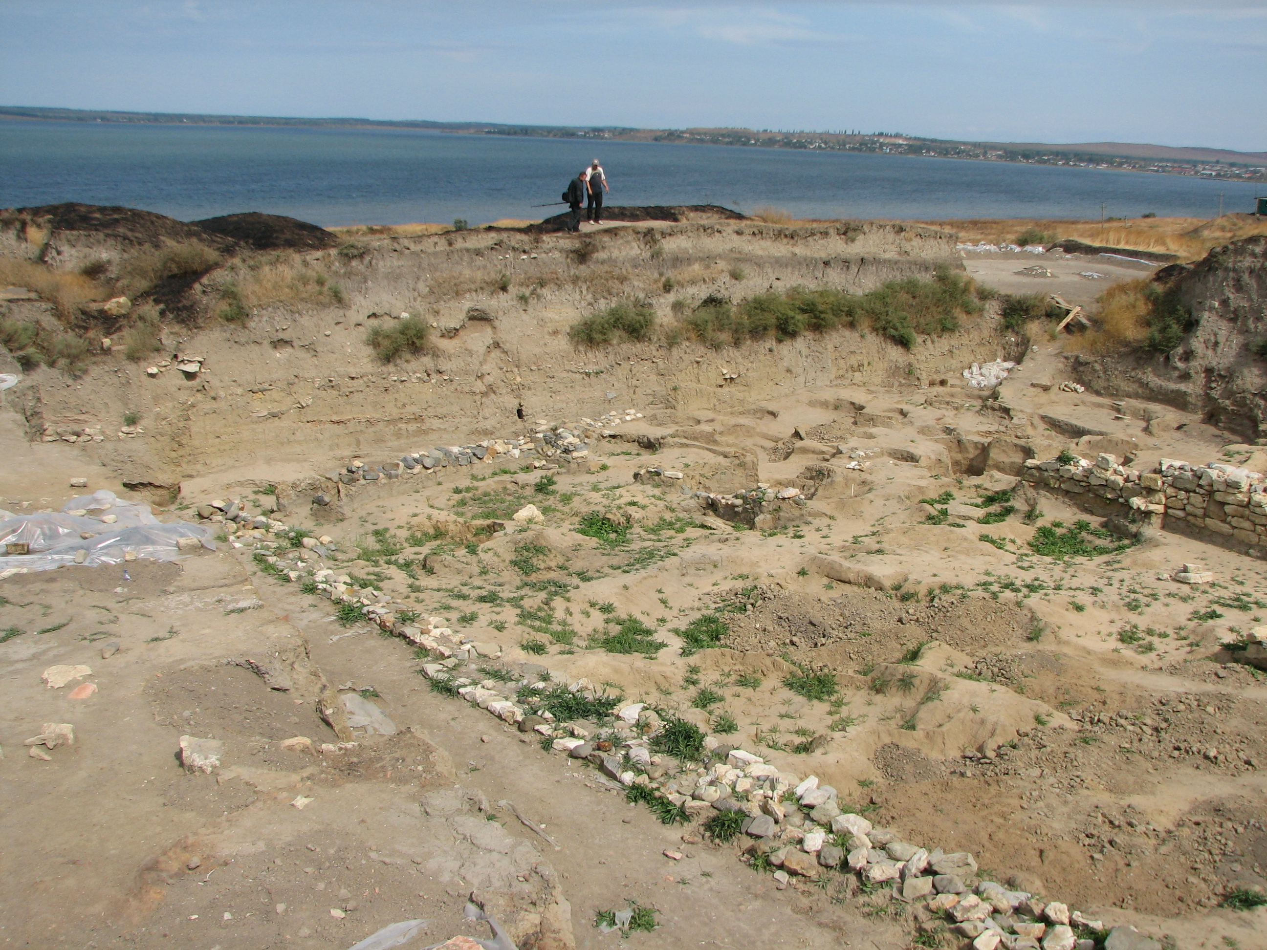 Excavations in Phanagoria